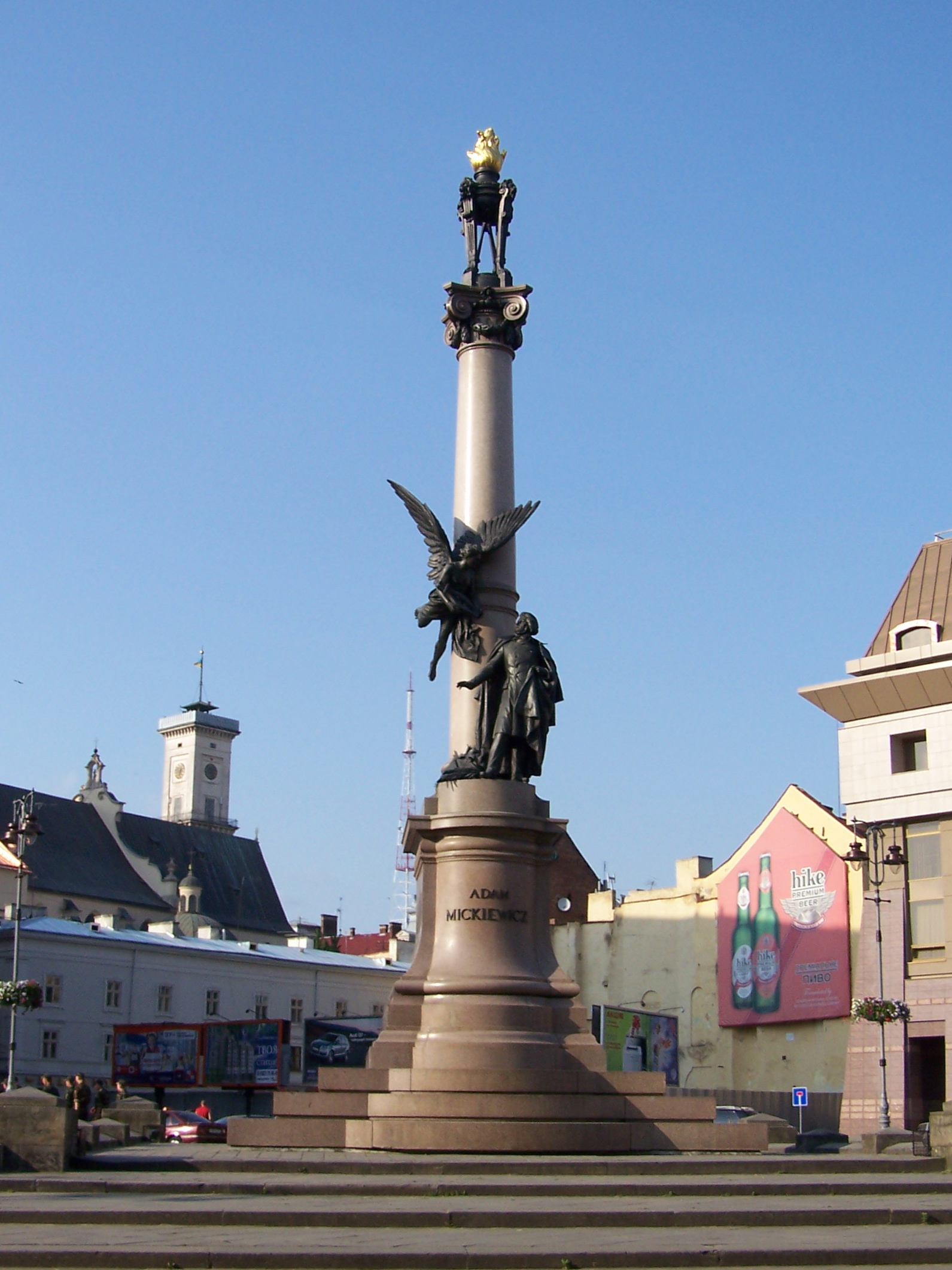 Monument of polish poet Adam Mickiewicz in Lviv (Ukraine).